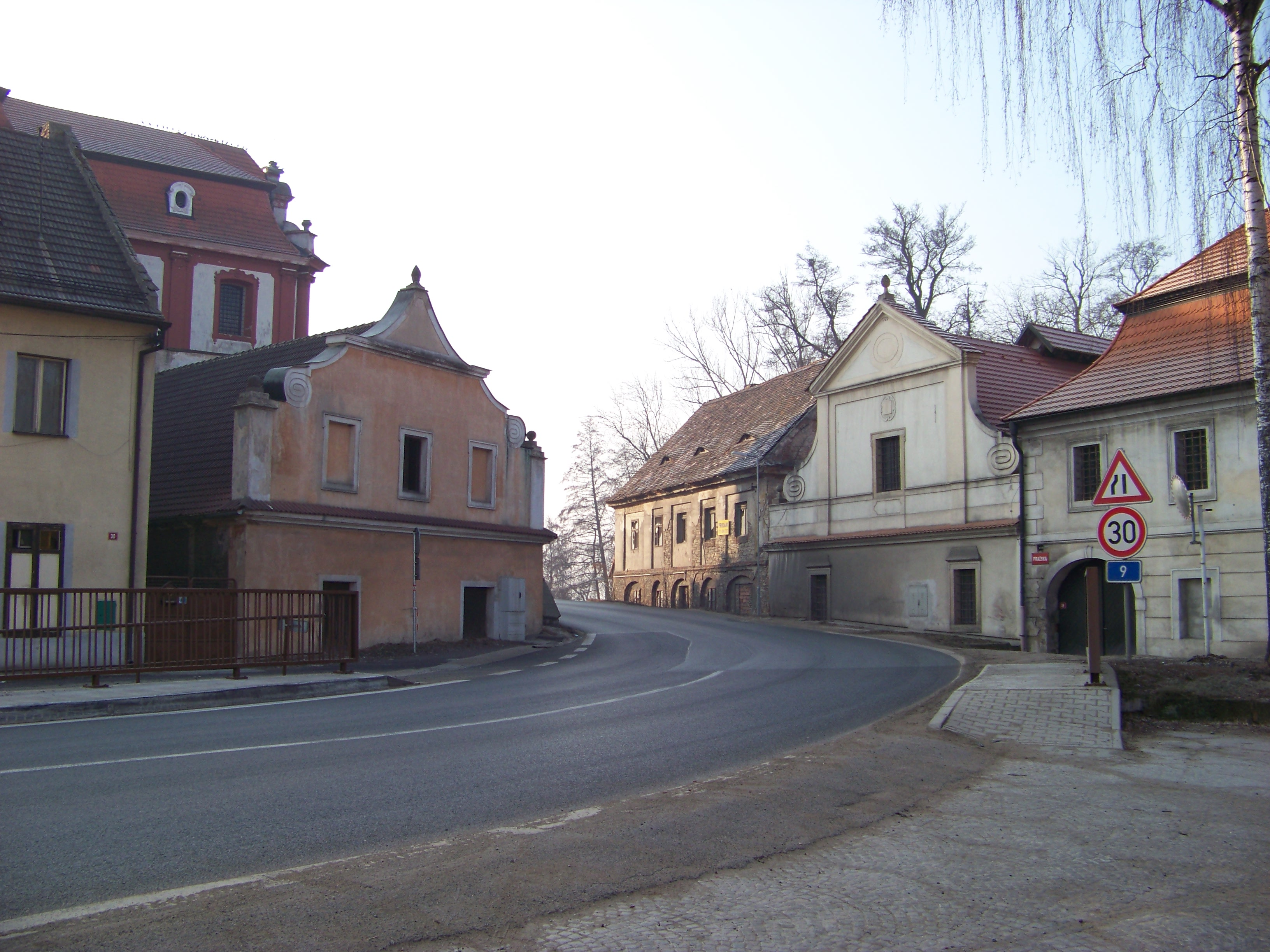 Liběchov, Mělník District, Central Bohemian Region, the Czech Republic. Pražská street (road I/9).